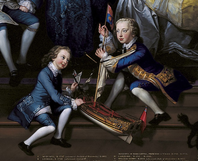 From File:The Family of Frederick, Prince of Wales.jpg